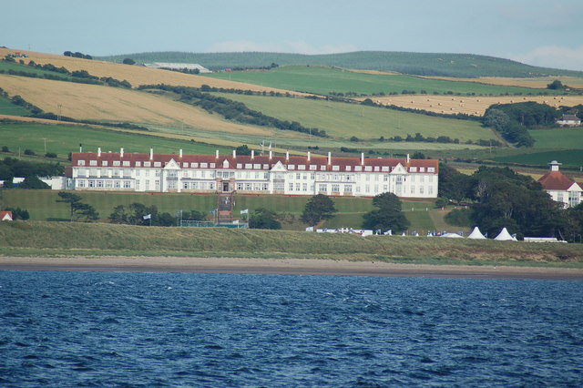 Turnberry Hotel. Turnberry Hotel and adjacent farmland, taken from PS Waverley